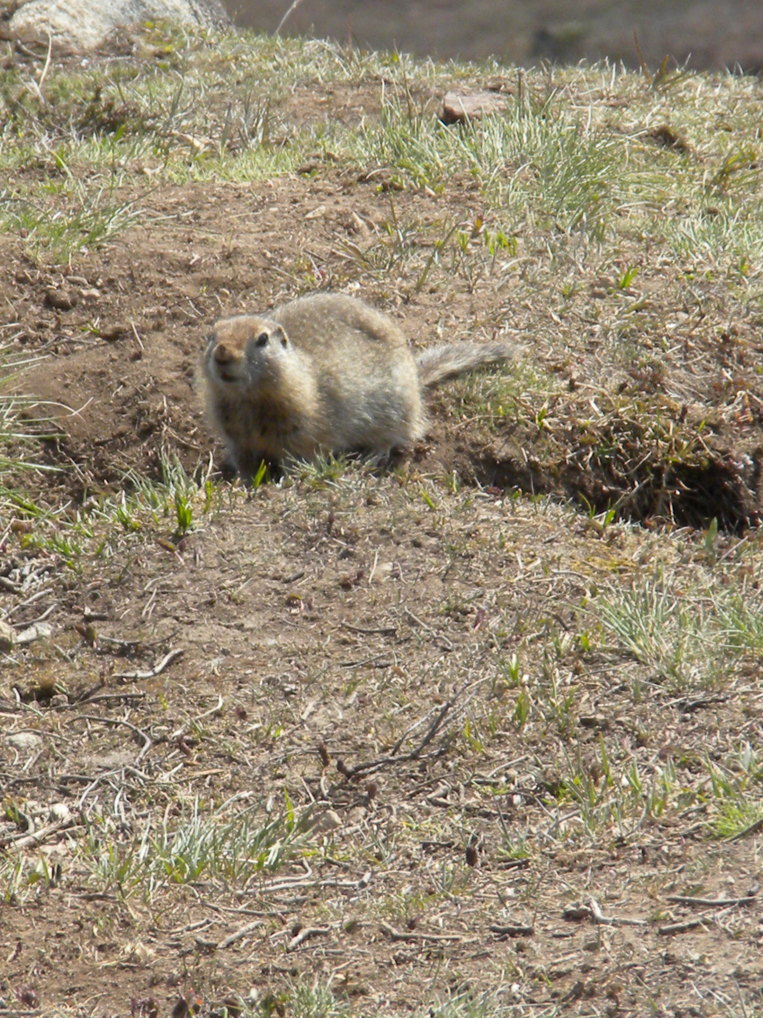 Pitka at Hatcher Pass, Alaska